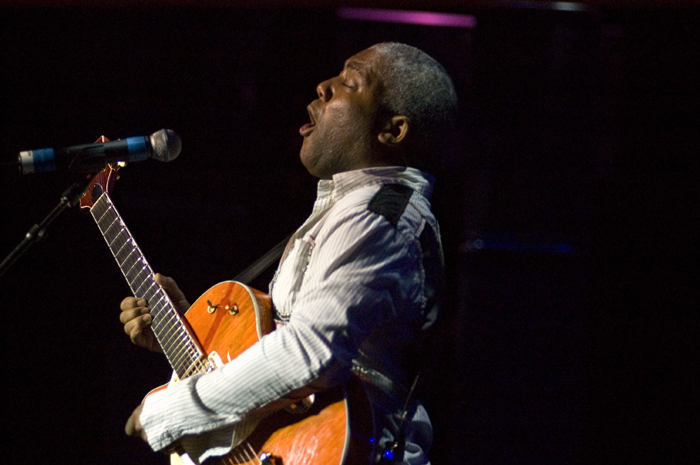 Jonathan Butler at the Dave Koz & Friends Smooth Jazz Cruise 2006